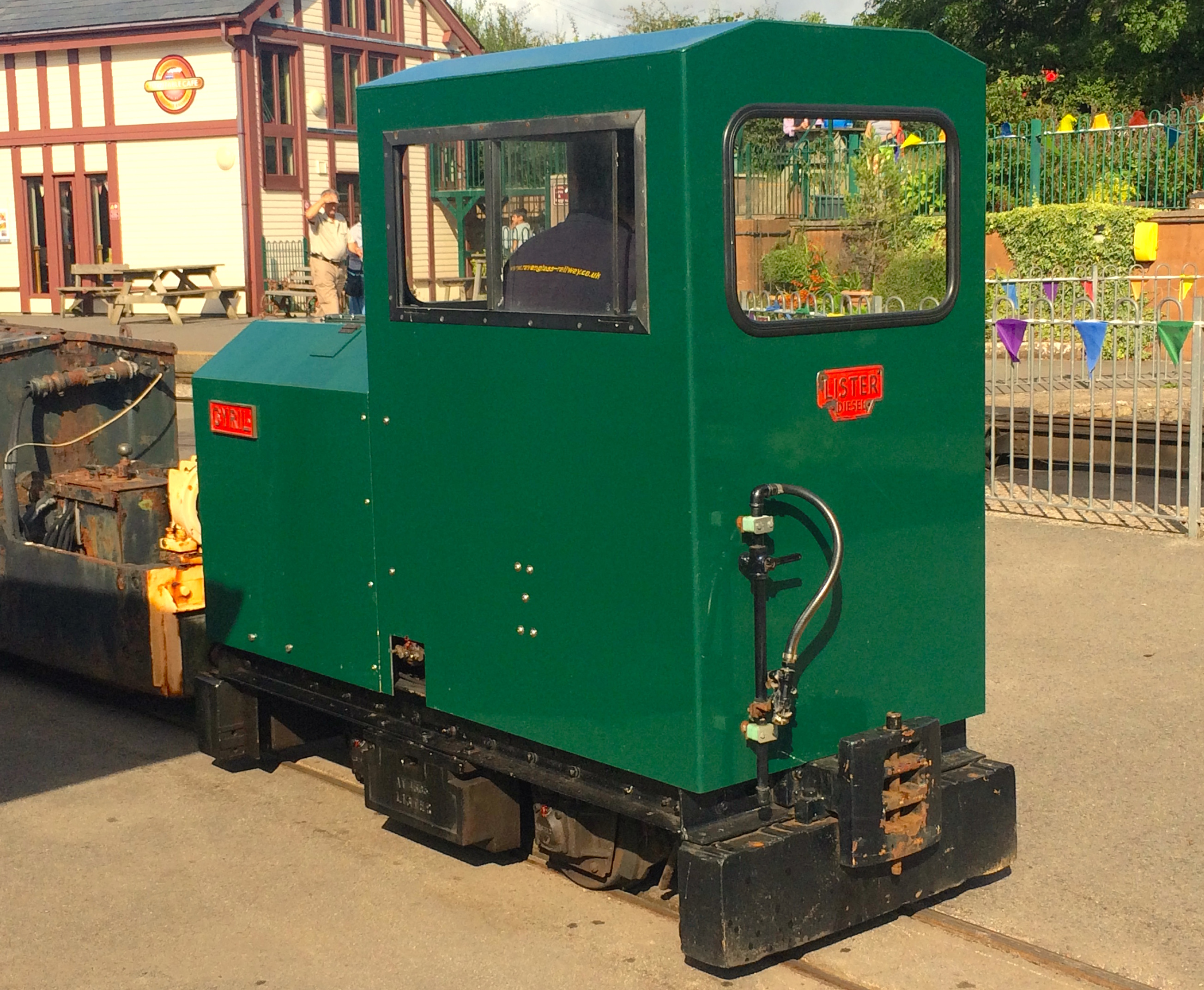 Locomotive ICL 9 "Cyril" at the Ravenglass and Eskdale Railway, Cumbria.